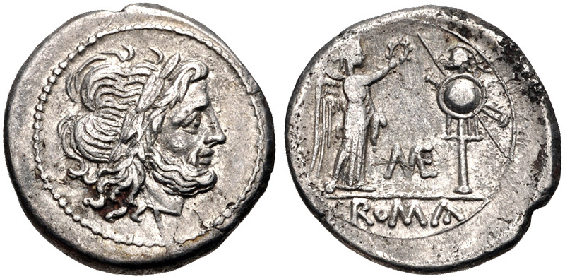 Roman Republic, Metellus. 194-190 BC. AR Victoriatus (17mm, 3.15 g, 9h). Rome mint. Laureate head of Iupiter right Victory standing right, crowning trophy with wreath; ME monogram between.